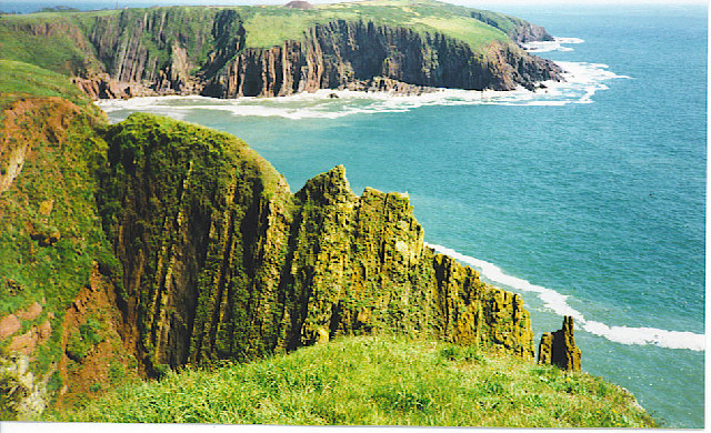 South Coast of Caldey Island. Fine examples of perpendicular rock strata.